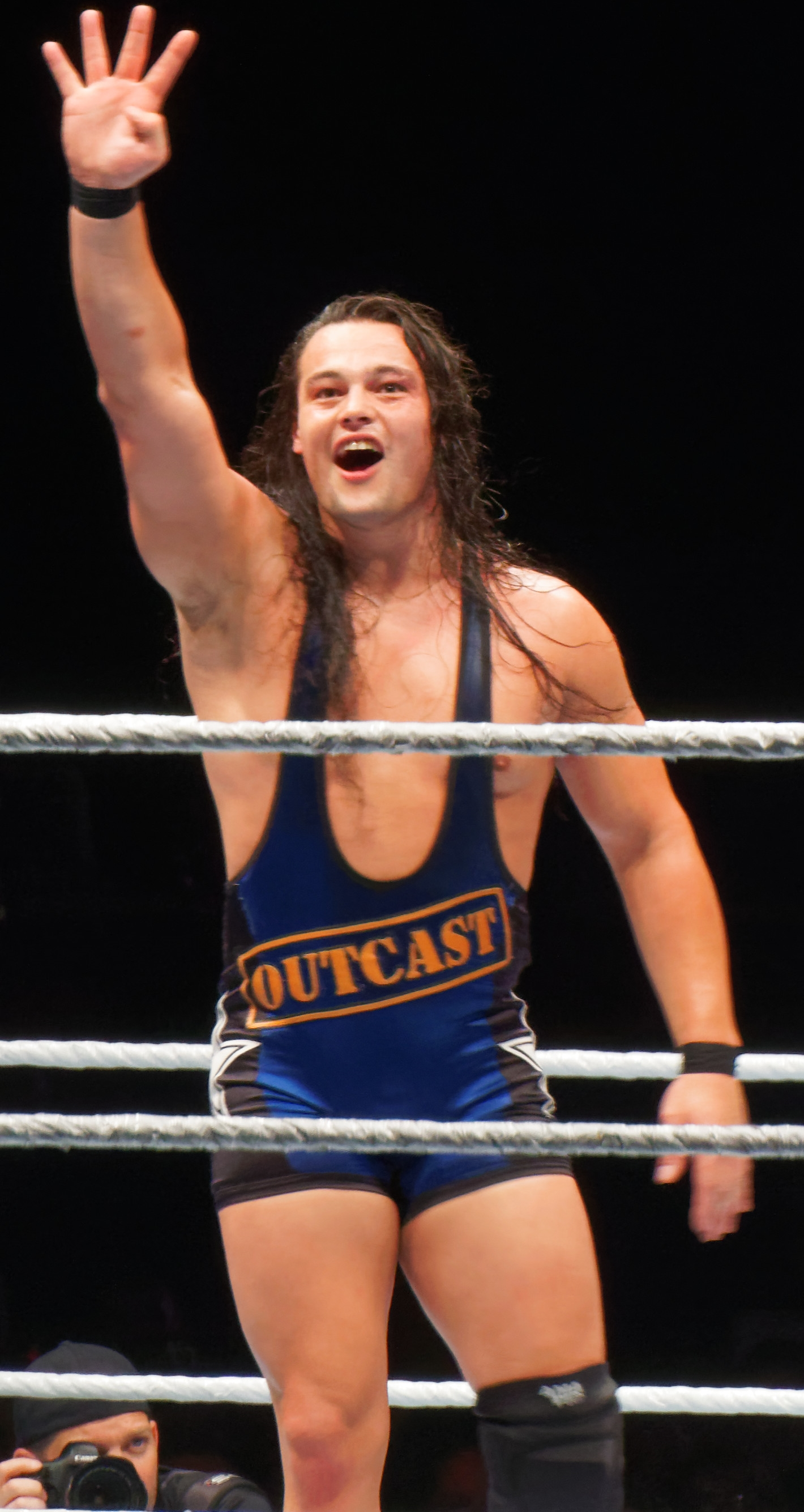 Bo Dallas in September 2016